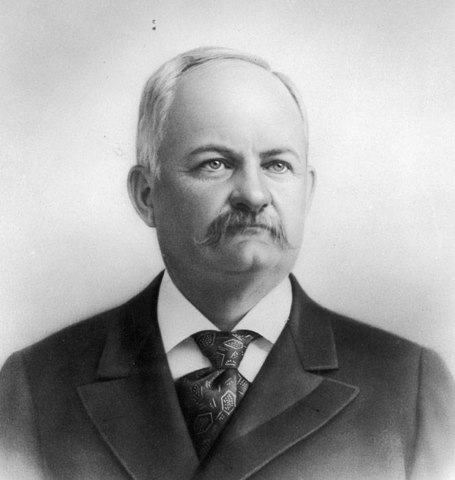 Photo of Caleb Walton West, governor of the territory of Utah from 1886-1888 and 1893-1896.